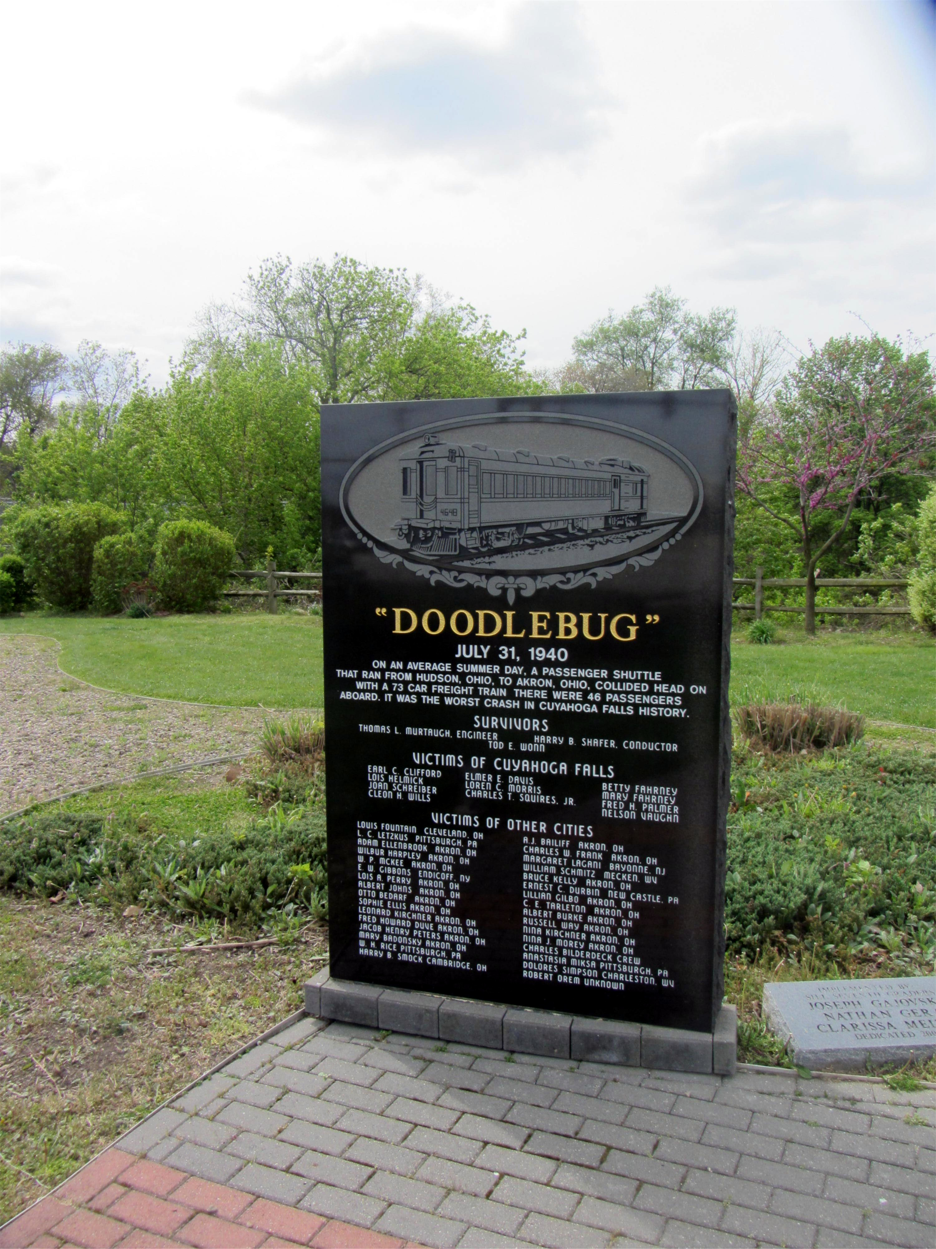 Doodlebug Memorial in Cuyahoga Falls, Ohio, United States.